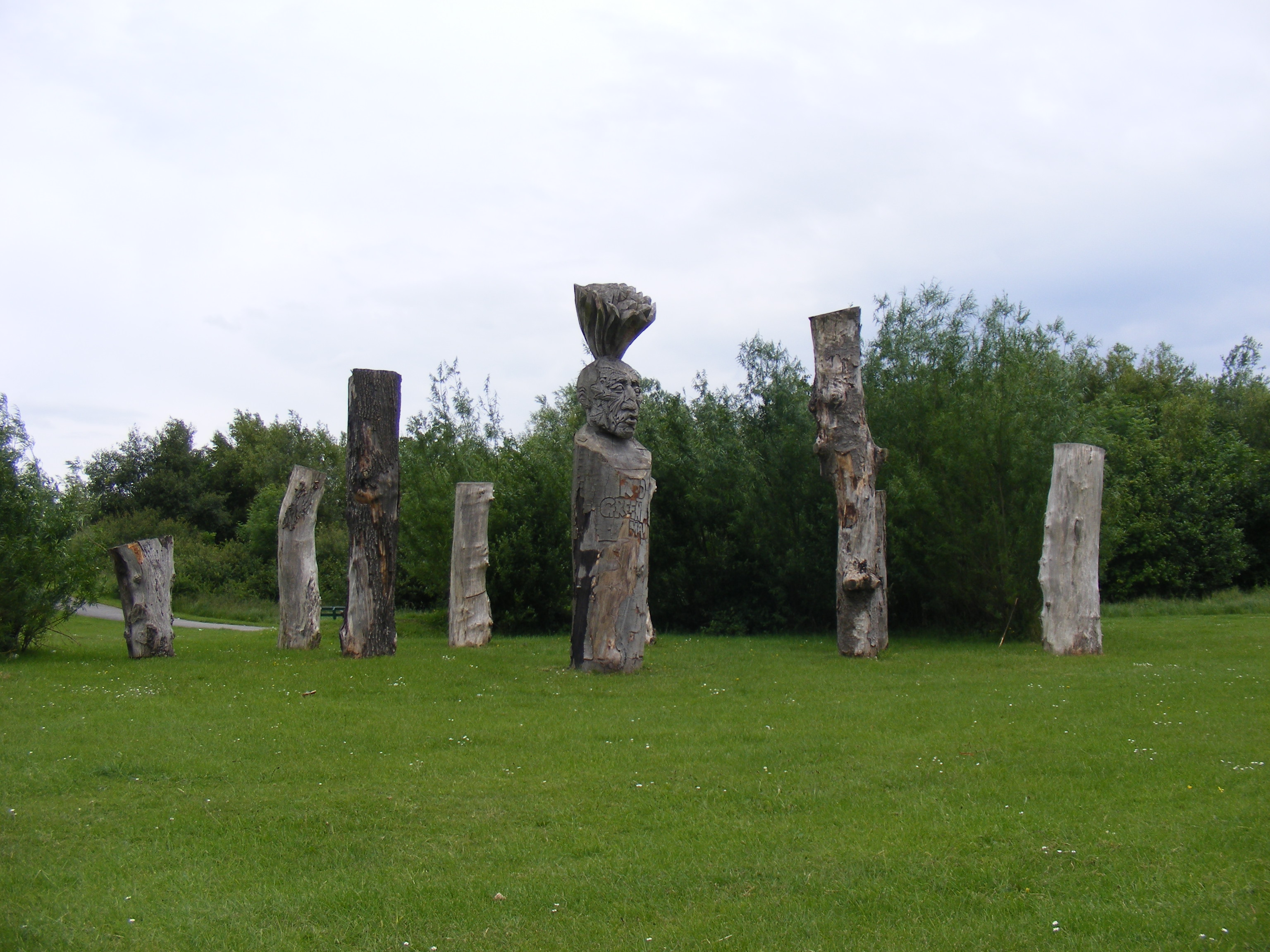 Wooden Statues in the park The Duckeries, St. Helens, Merseyside, England